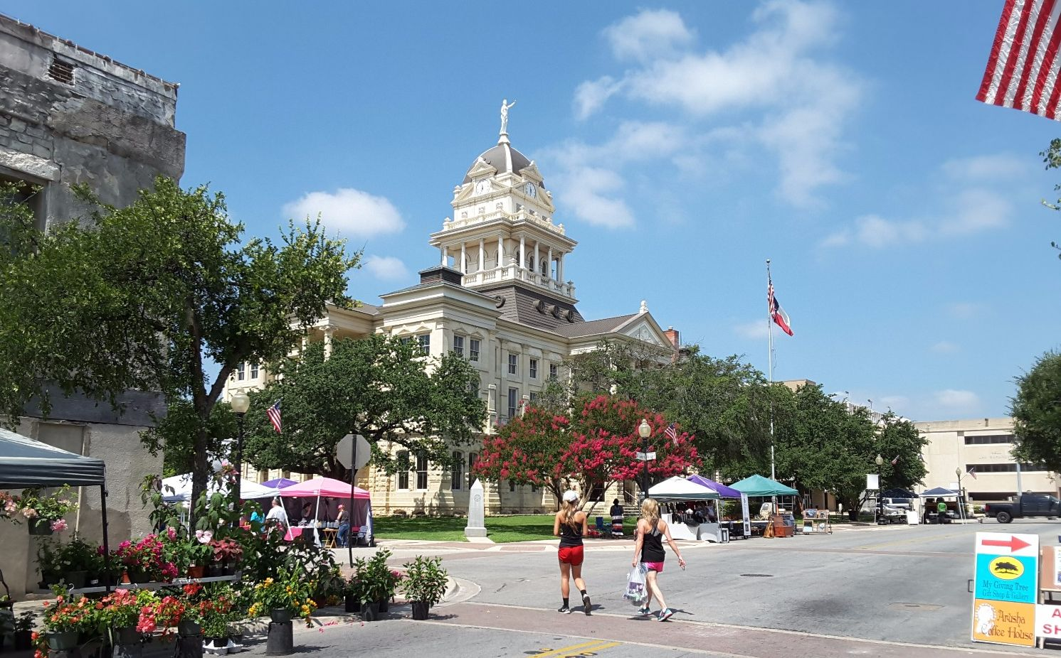 Downtown Belton during Market day